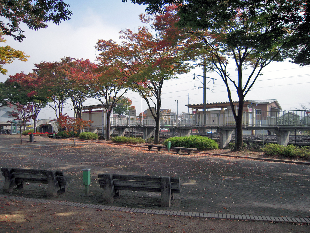 Niida Station, Date, Fukushima, Japan in July 2003